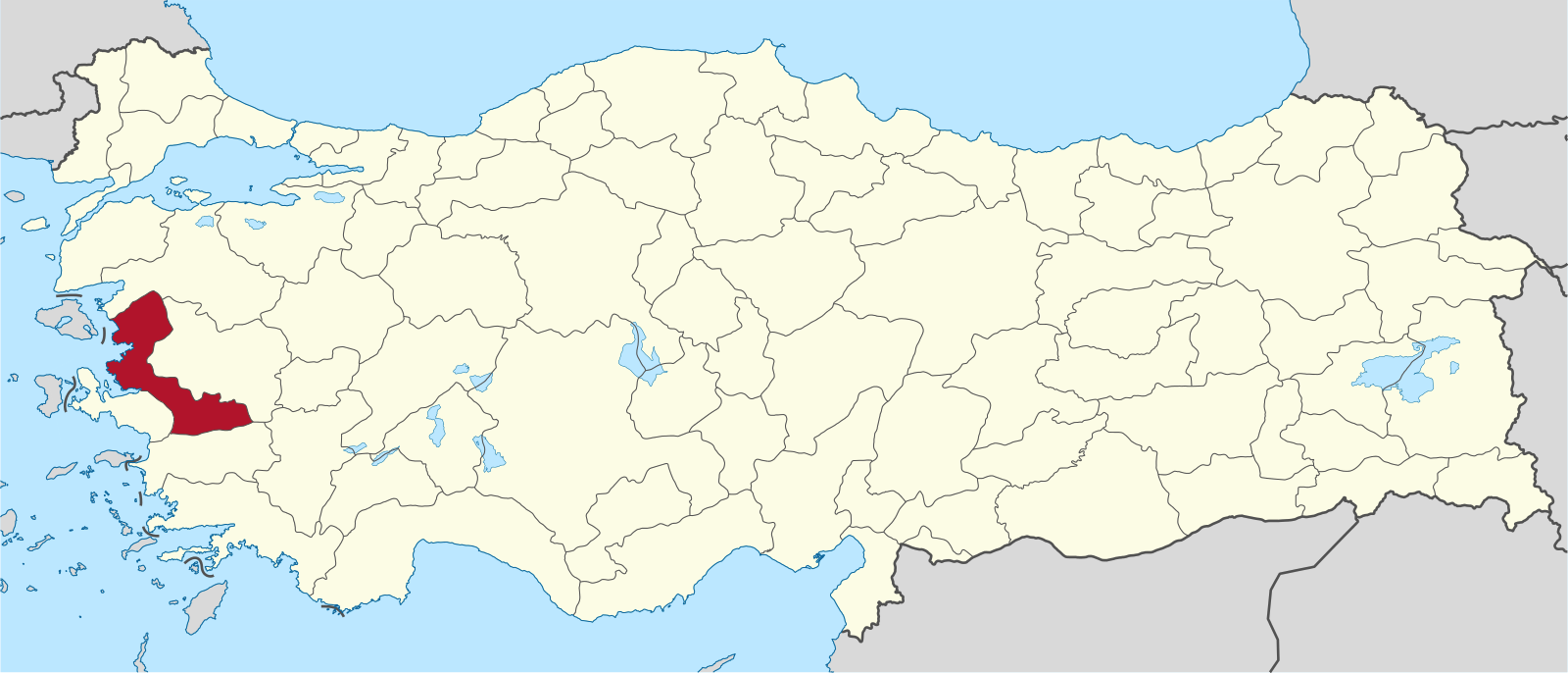 The second electoral district of İzmir located within Turkey